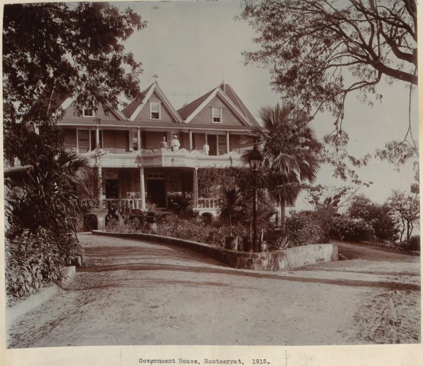 CO 1069-411-84 Description: Government House, Montserrat, 1915. Location: Montserrat, Leeward Islands Date: 1915 Our Catalogue Reference: Part of CO 1069/411 This image is part of the Colonial Office photographic collection held at The National Archives, uploaded as part of the Caribbean Through a Lens project.